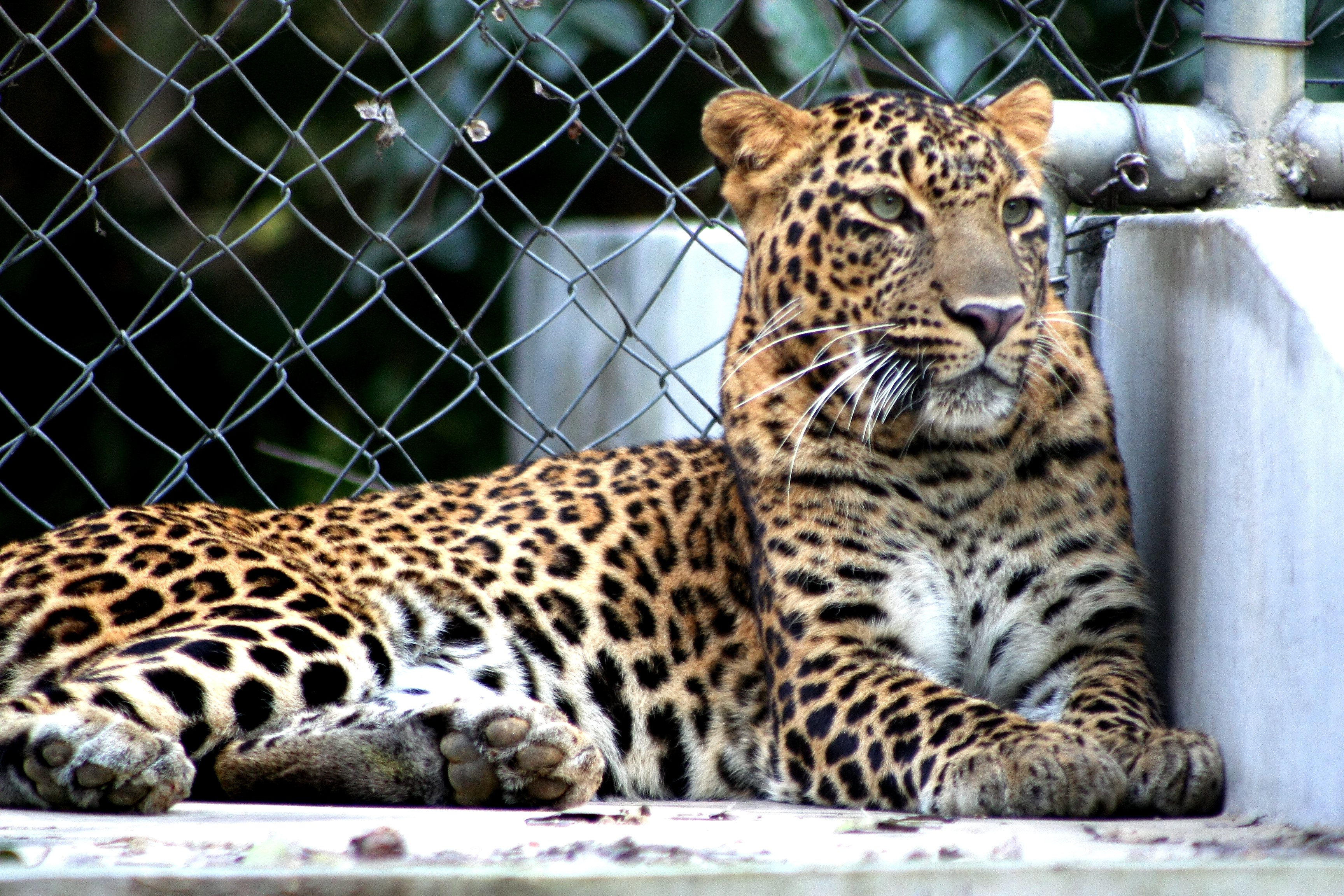 Leopard at the Kanpur Zoological Garden, Kanpur, India